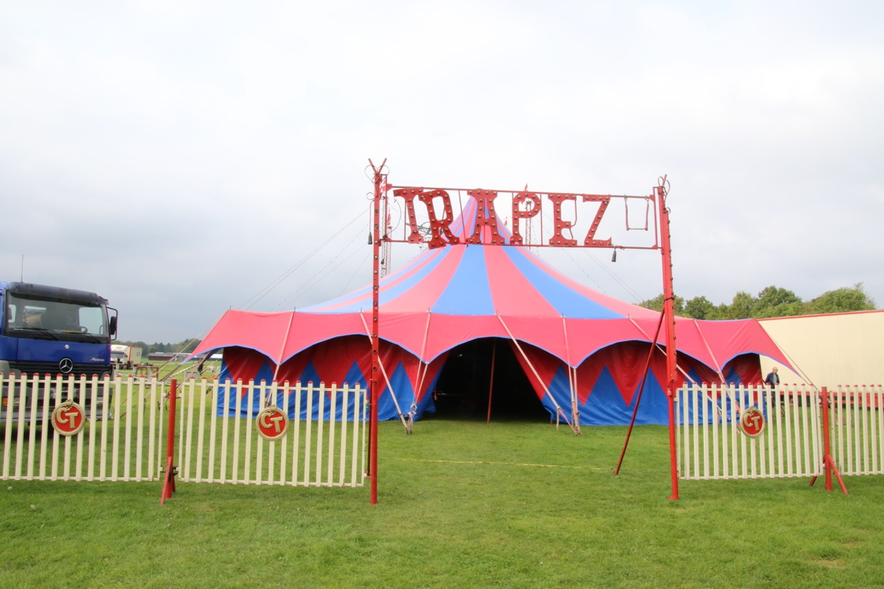 Cirkus Trapez